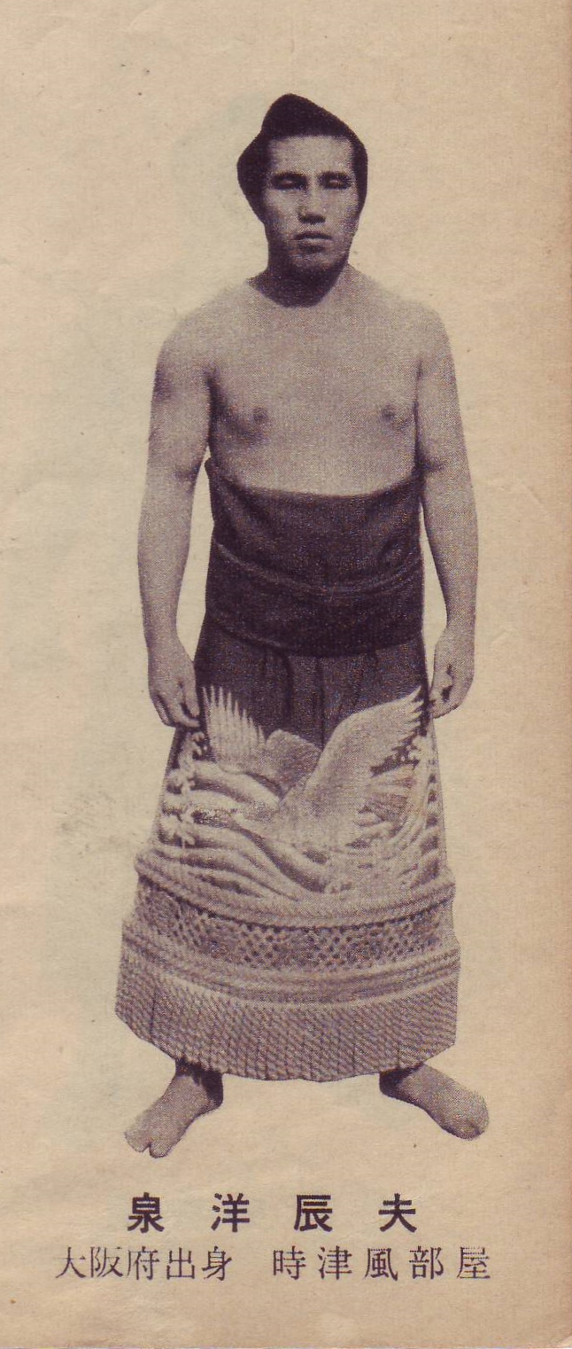 Izuminada Tatsuo (Sumo wrestler from Japan). taken in 1958, or before that.